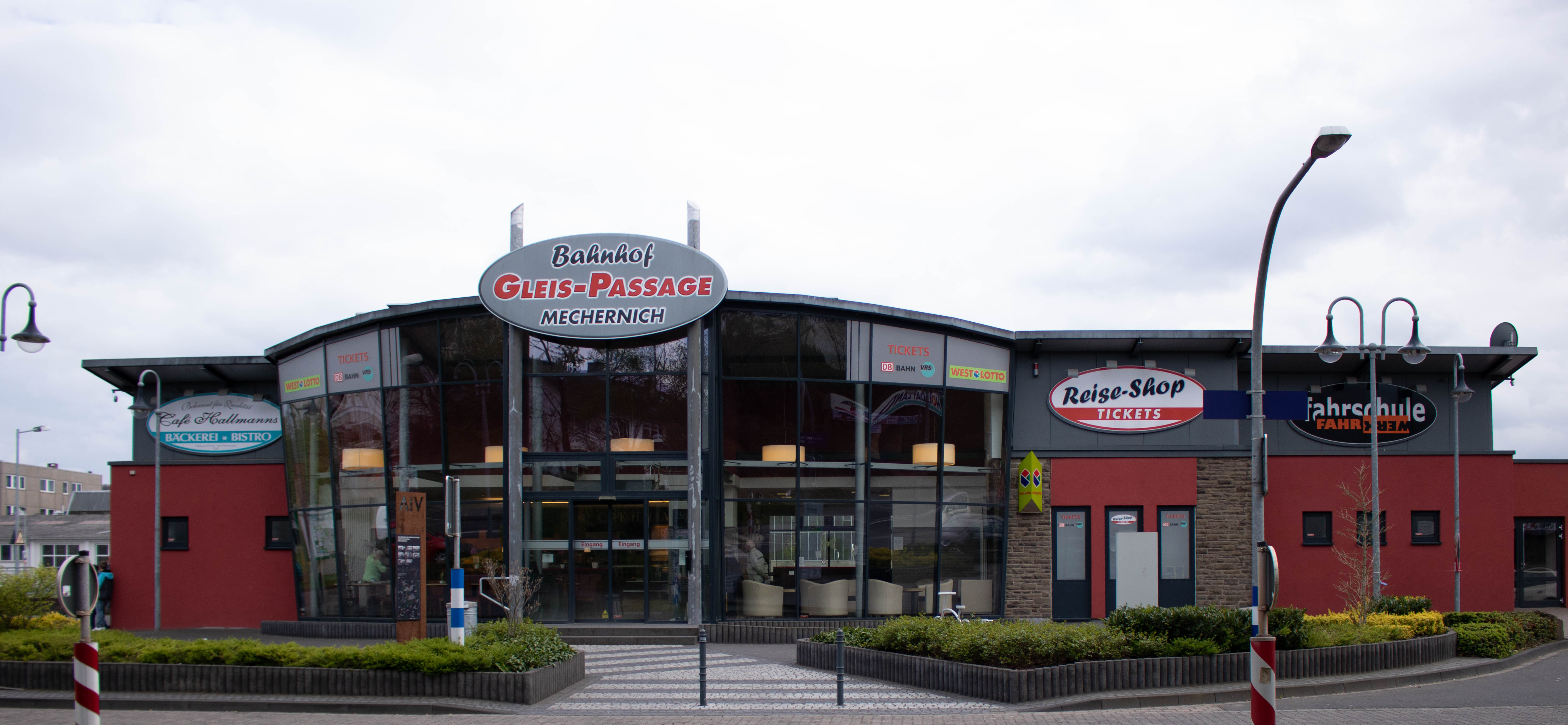 This photograph shows the Train Station in Mechernich (built 2010), photographed from "Bahnhofsberg" in April 2017